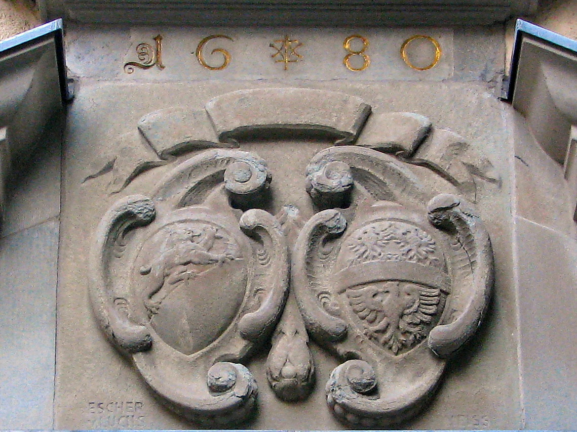 Zürich : Brunnenturm (~ 1250) in Altstadt quarter, Detail Portal with coat of arms Escher von Luchs and von Meiss, and stonecutter marks.